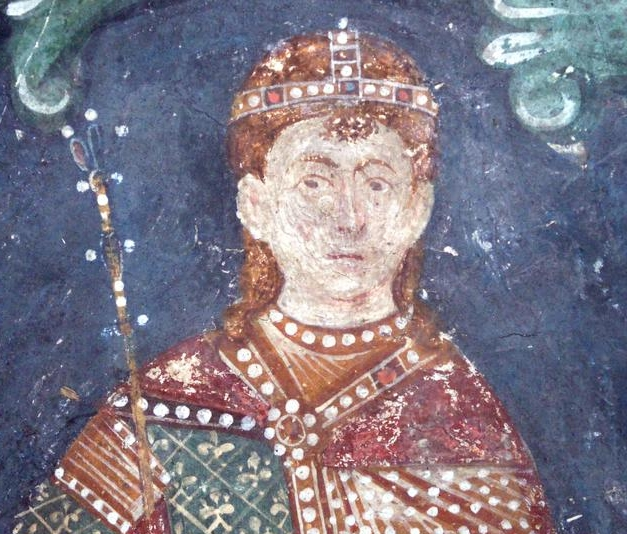 The fresco of young king Konstantin, son of Stefan Milutin (from Loza Nemanjića composition), Gračanica monastery, Serbia